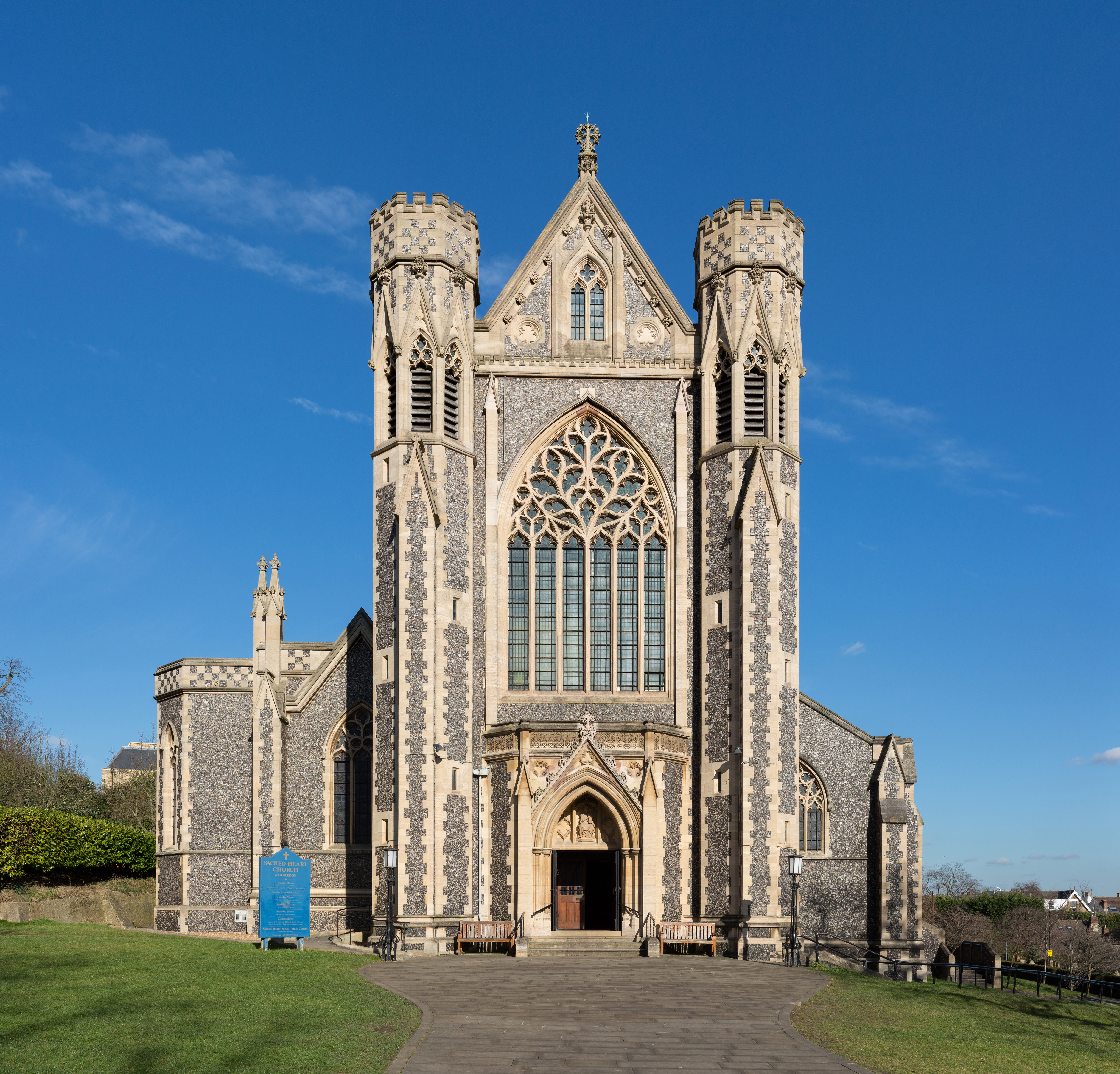 The exterior of Sacred Heart RC Church, Wimbledon, London.